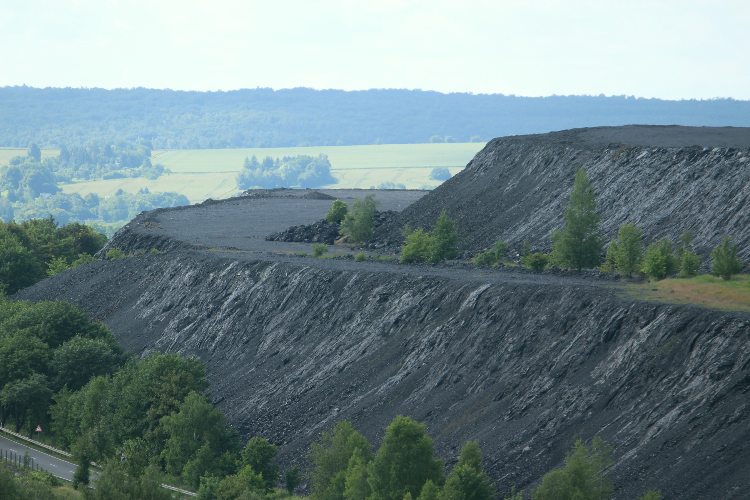 Helbra, view from the Schmid shaft to the slag dump